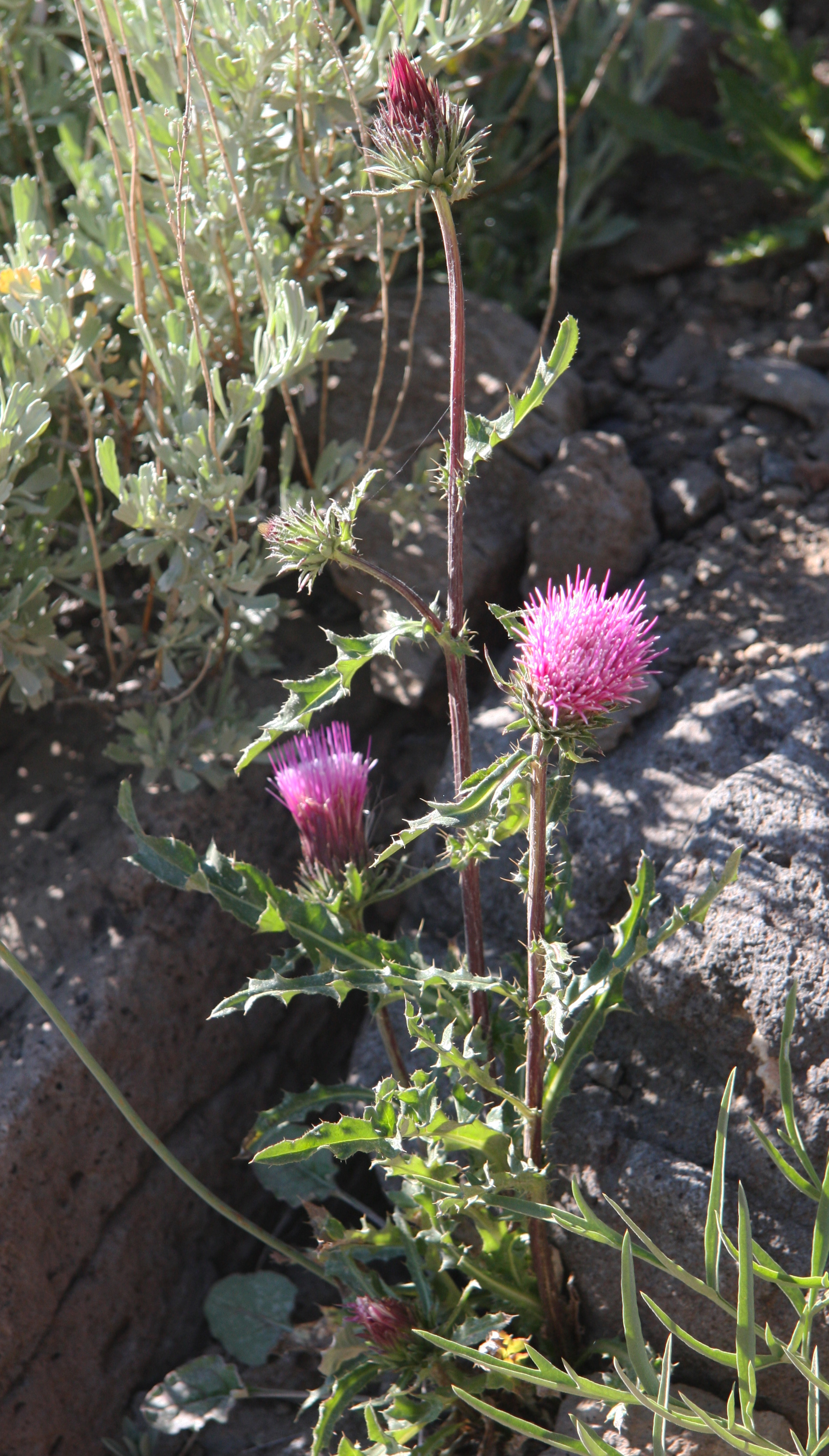 Anderson's thistle (Cirsium andersonii), plant with bud and two flowers. At about 9300ft along High Trail (part of Pacific Crest Trail) from Agnew Meadows to Agnew Pass, Ansel Adams Wilderness, California.